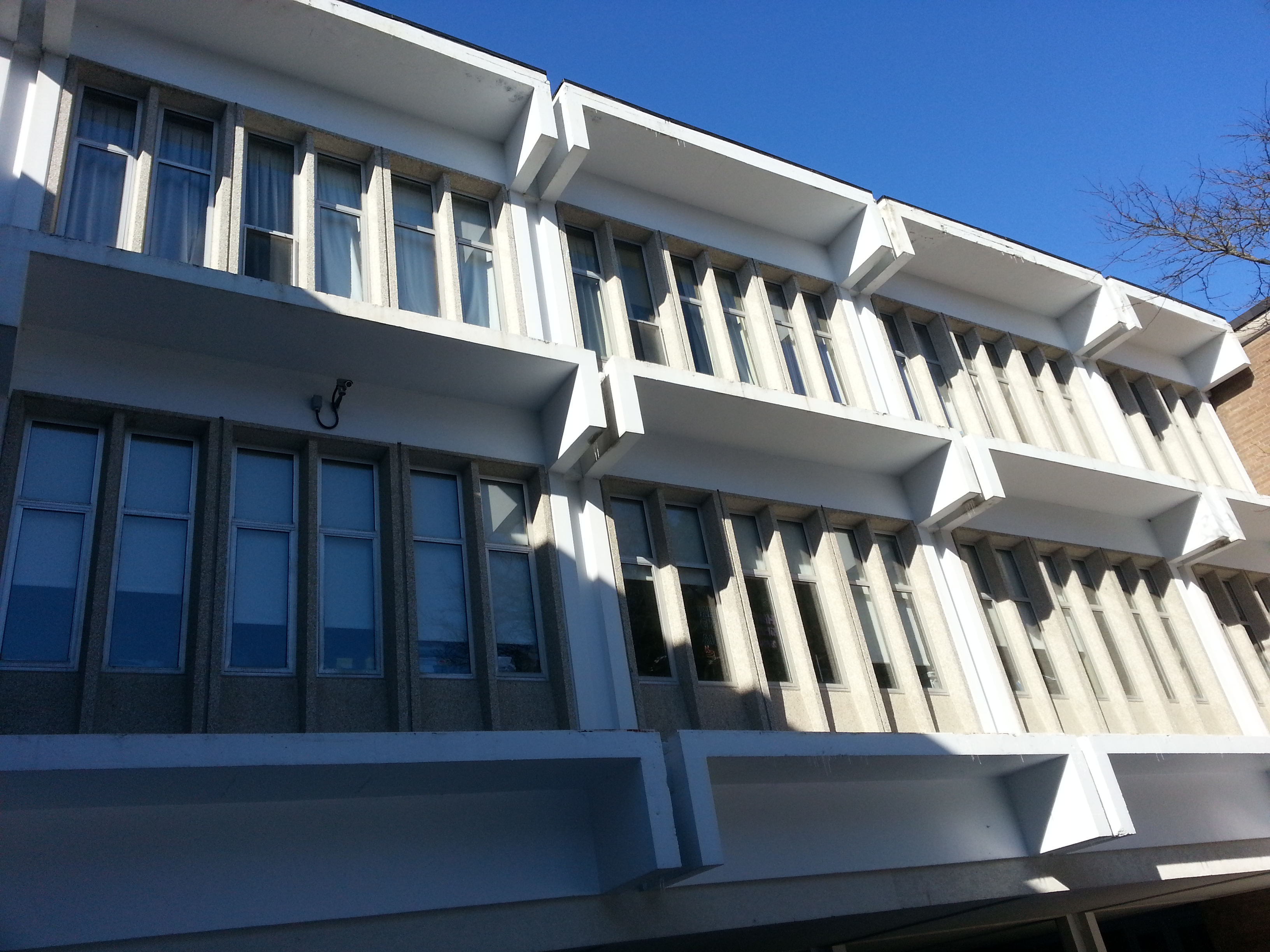 Insert description here